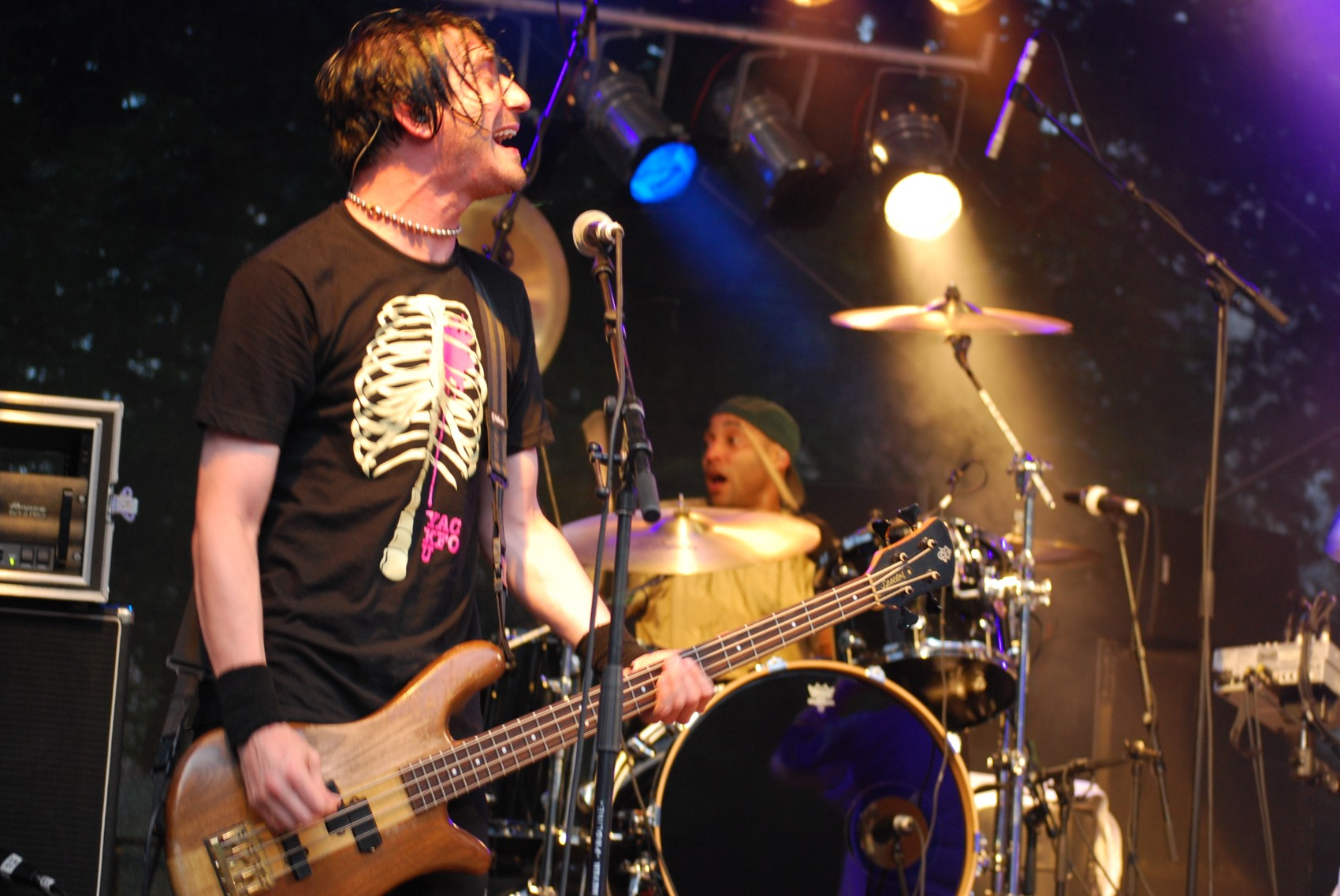 Dave Neabore at concert of Dog Eat Dog, Bochum